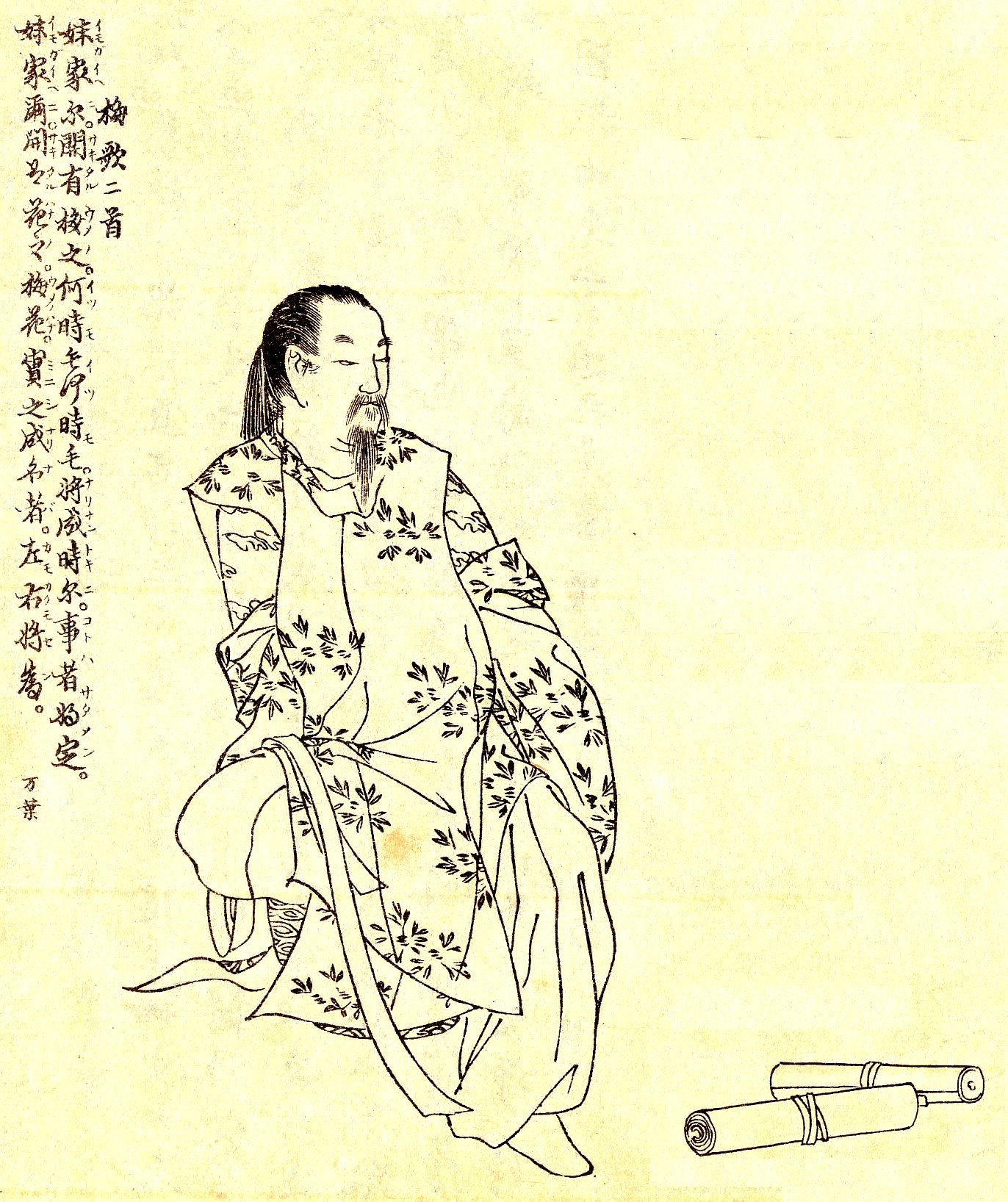 Fujiwara no Matate(藤原真楯) was a Japanese politician and court noble in Nara period.